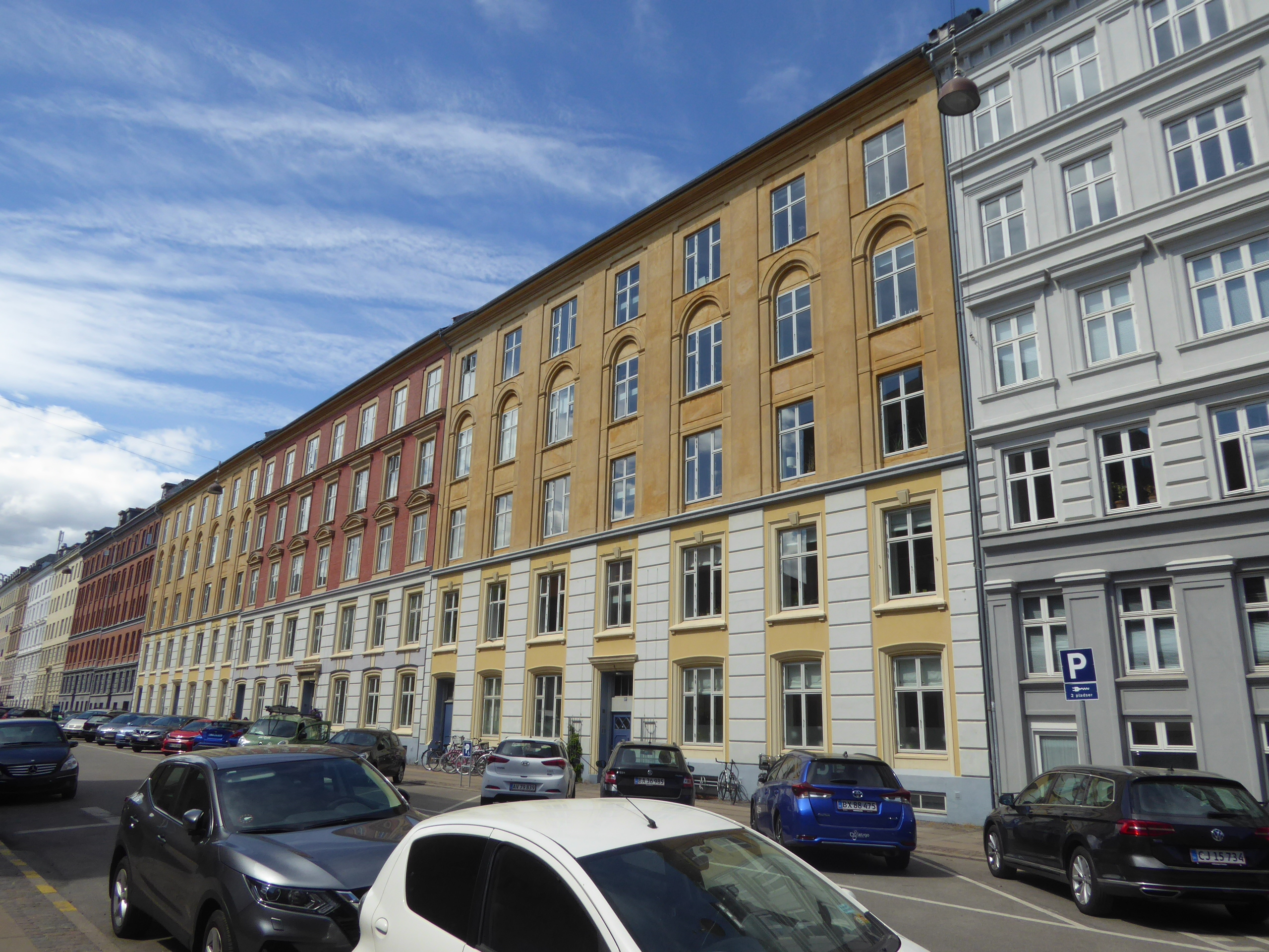 Apartment buildings at Nøjsomhedsvej in Østerbro in Copenhagen